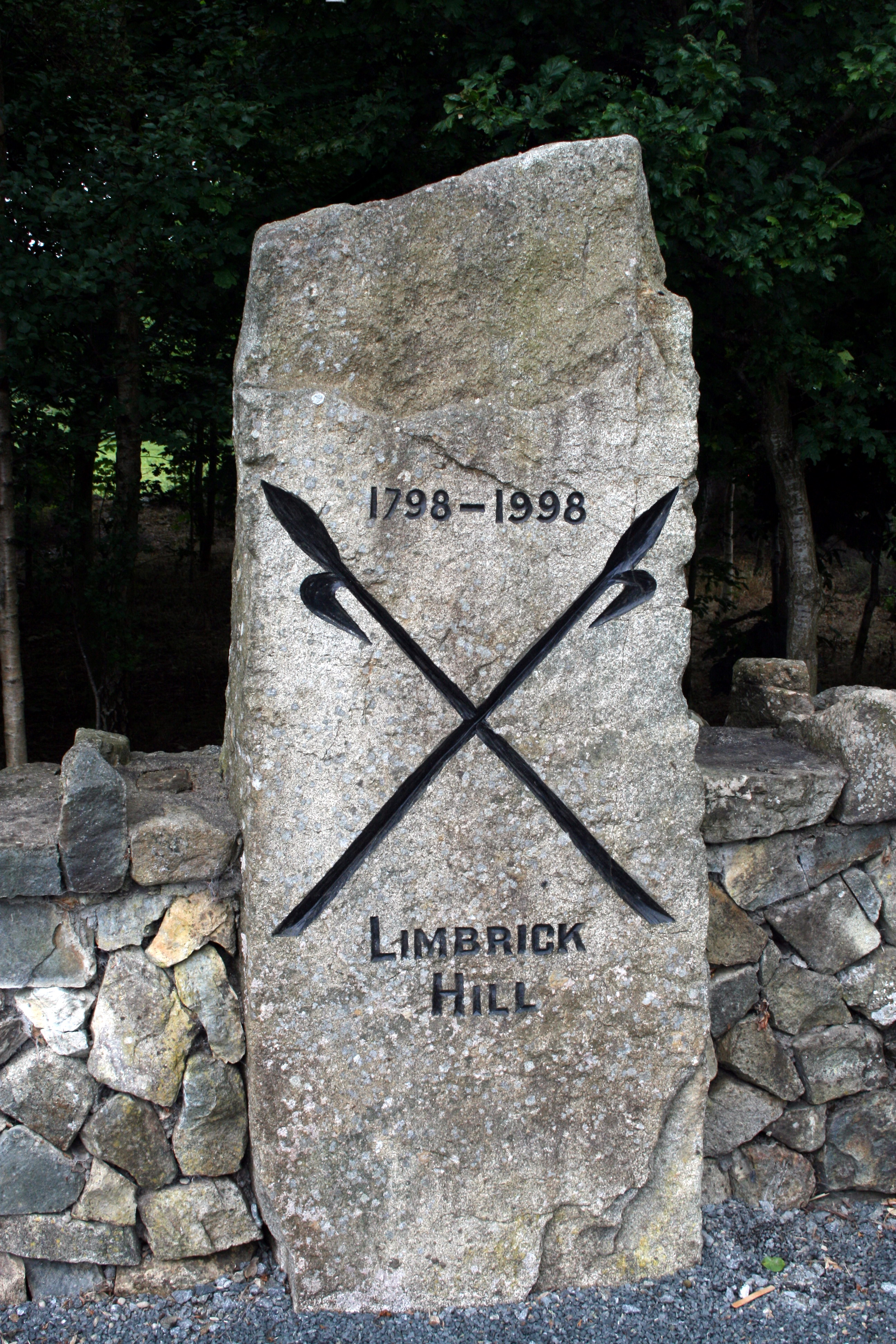 Limbrick Hill Monument, Killinierin, County Wexford